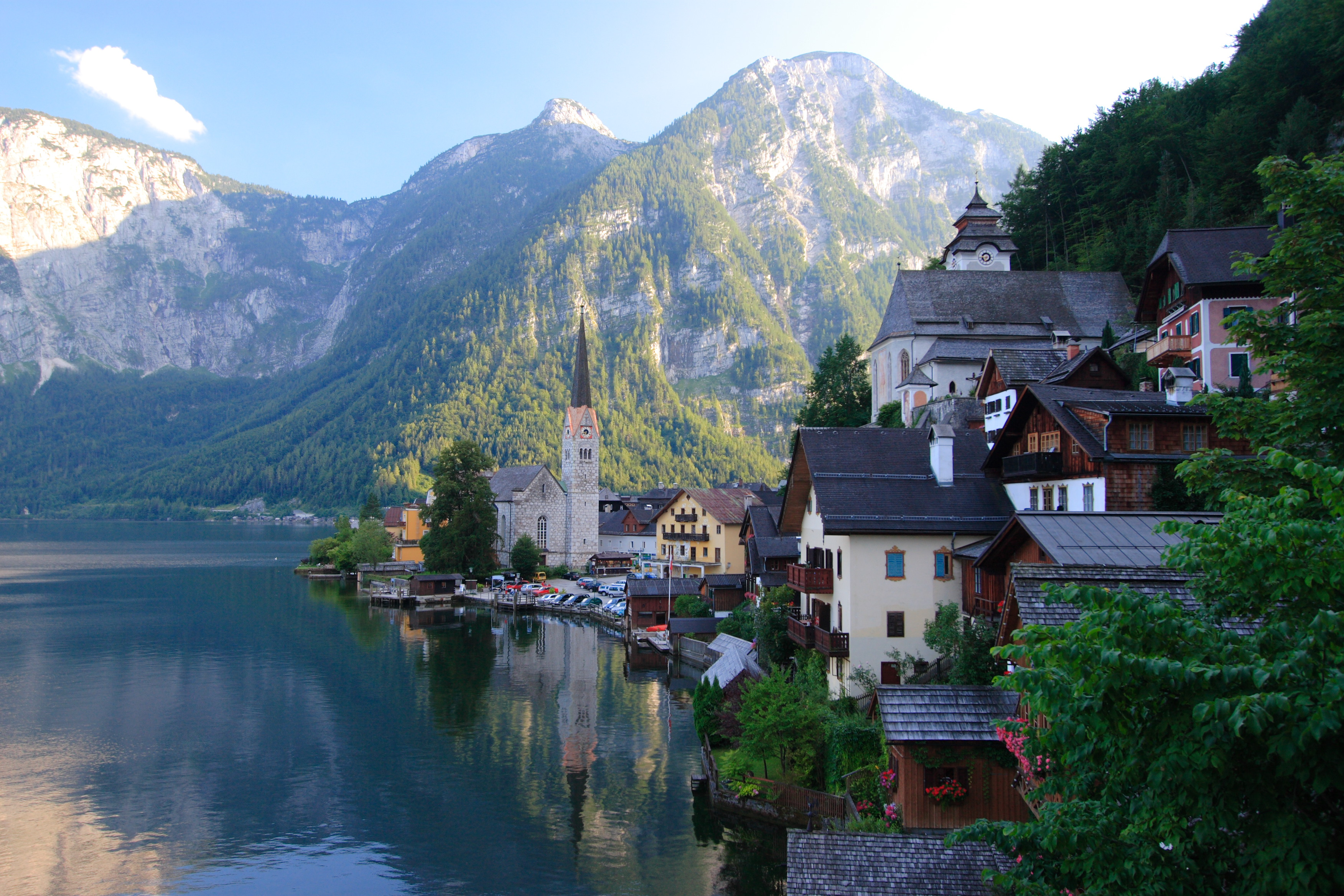 Hallstatt. With Vorderer Hirlatz (1934m) and Dachstein mountain range